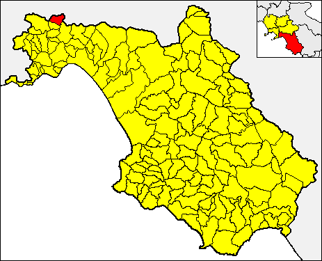 Locator map of the municipality of Bracigliano (red) within the Province of Salerno